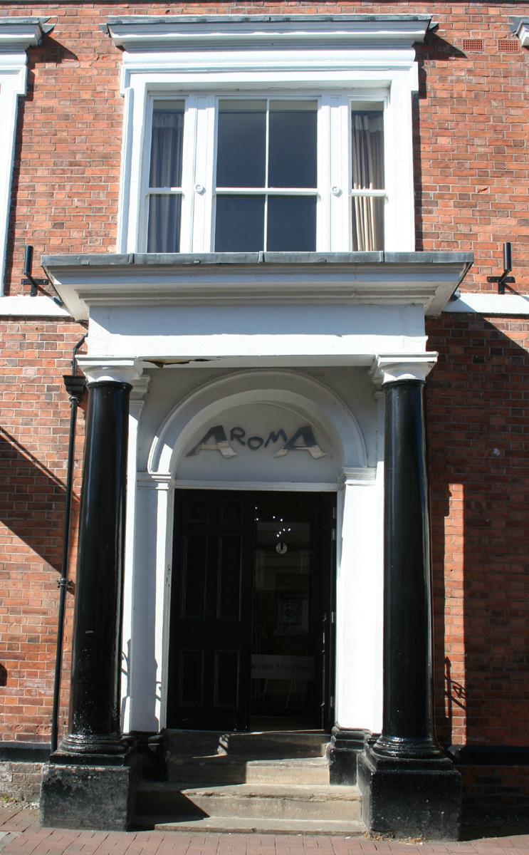 Detail of Chatterton House (former Lamb Hotel), Hospital St, Nantwich, Cheshire